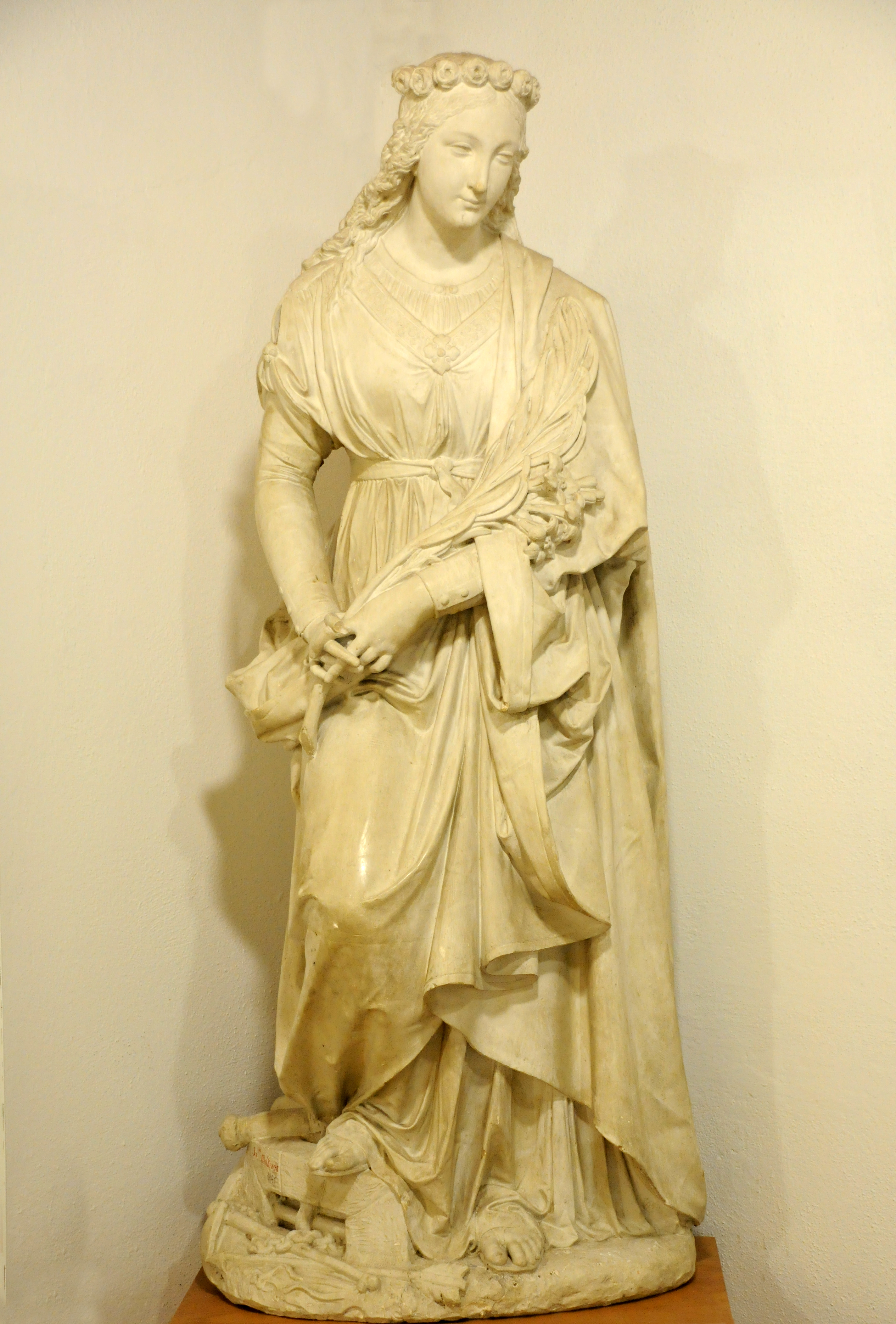 Saint Philomena by J.D. Mahlknecht plaster cast by the author in the Museum Gherdëina in Urtijëi Italy